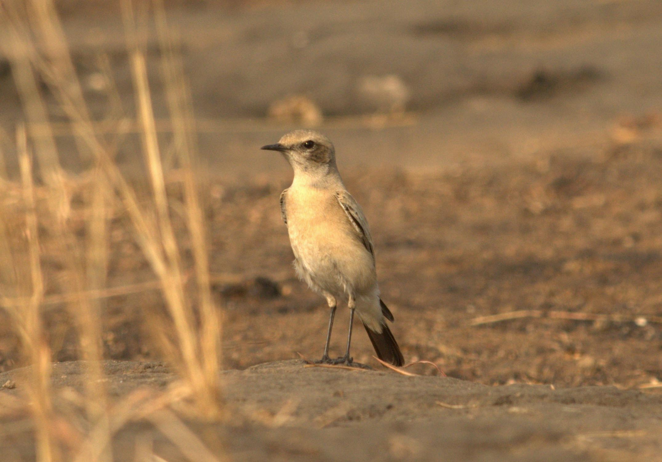 Desert Wheatear Oenanthe deserti. Photo taken at Dombivli, distt. Thane, Maharashtra, India.